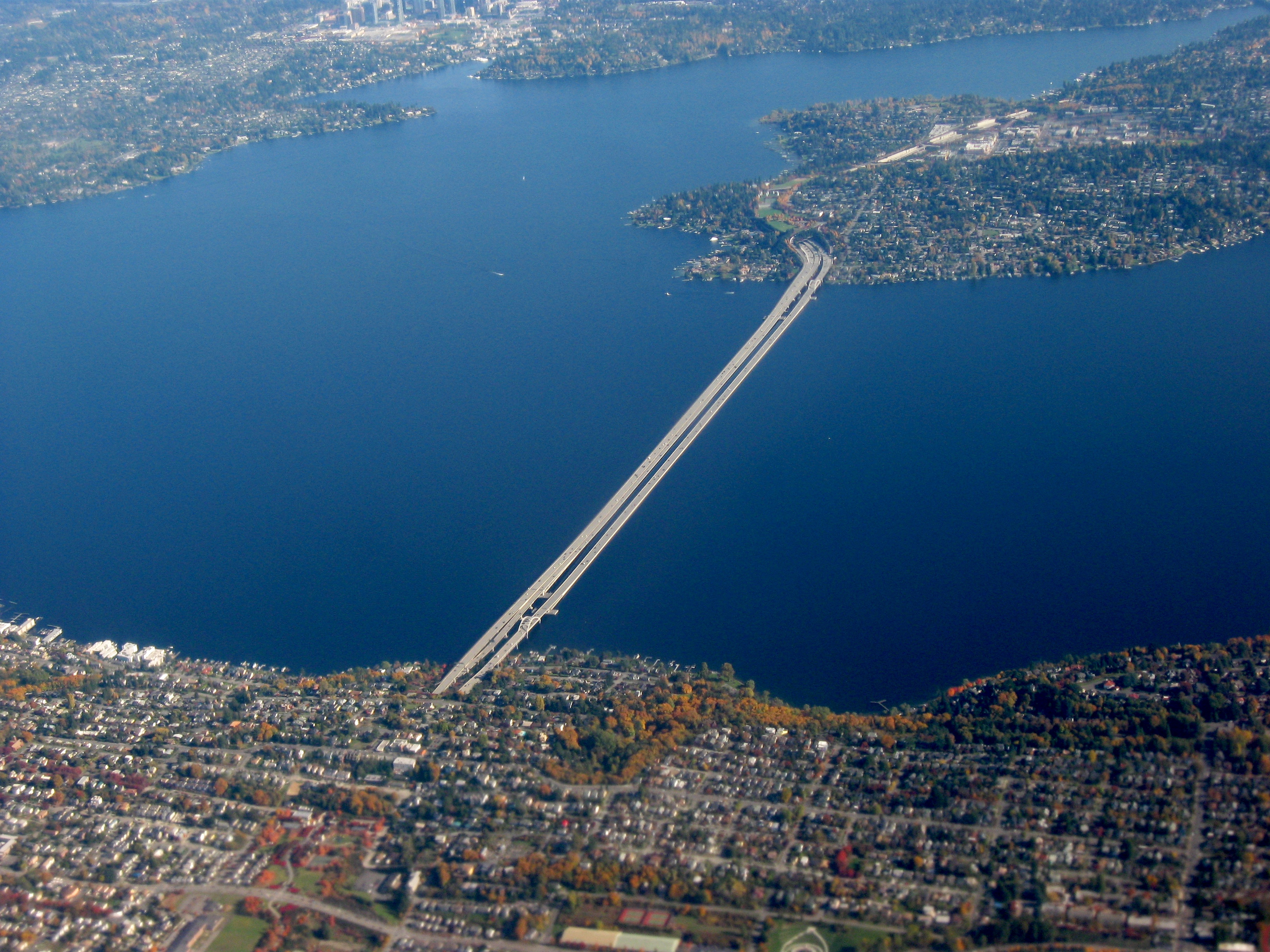 Interstate Highway 90 bridge from Mercer Island (top right) to Brighton area of Seattle (bottom left) across Lake Washington. Facing northeast from Seattle. A bit of downtown Bellevue is visible in the upper-left. Taken by myself from a commercial airliner window.